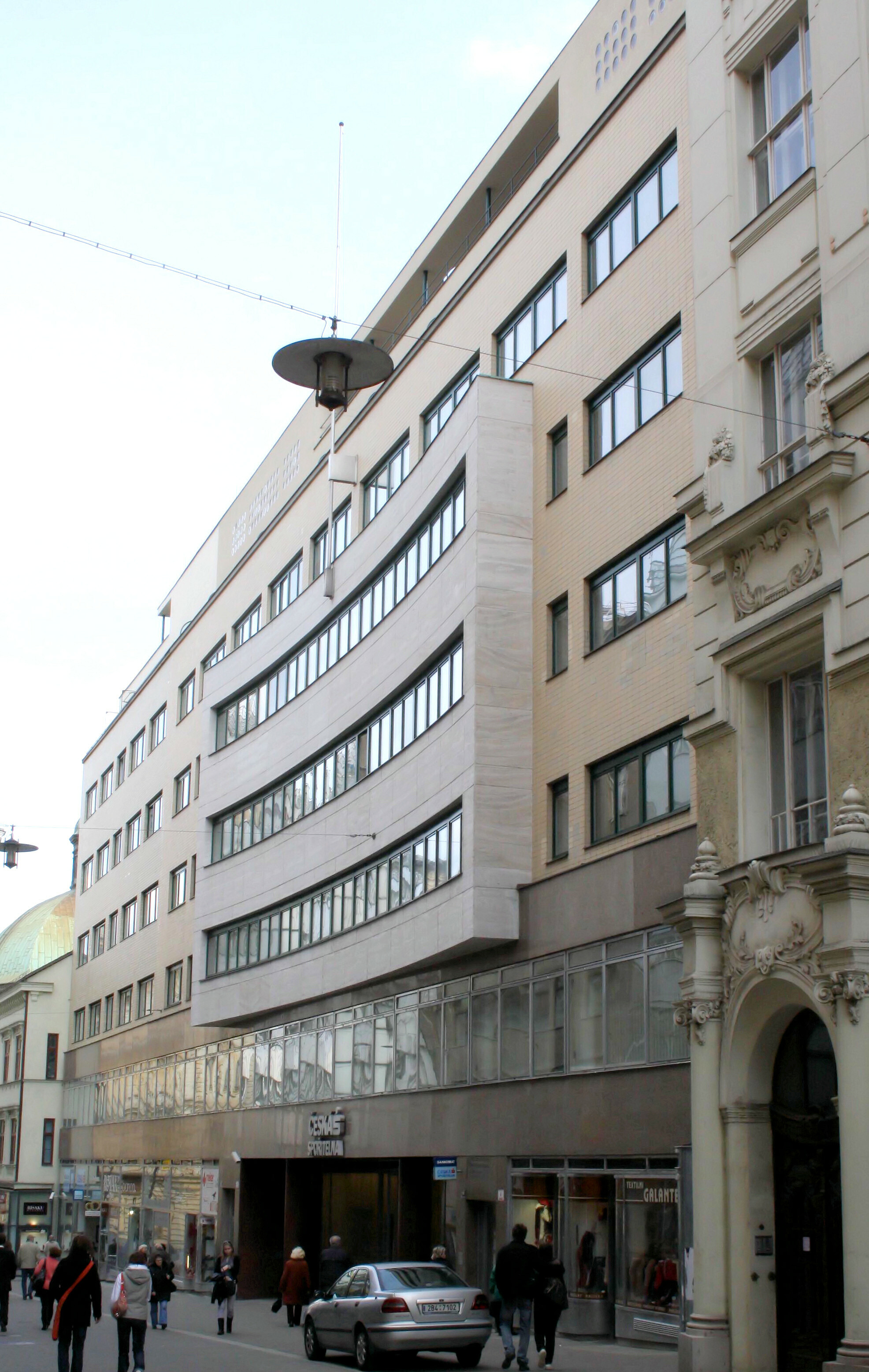 Overview of Spořitelna Building in Brno.